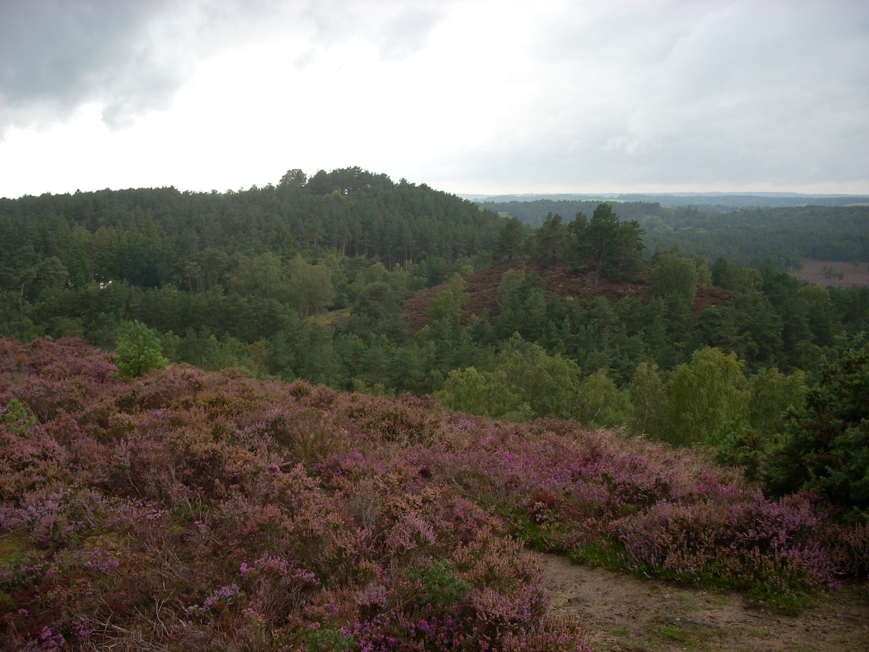 View of the Devil's Jumps at Churt, in Surrey, linked to a body of local folklore. Photo taken from the summit of the easternmost Jump. Middle Jump is to the right, with Stony Jump beyond it and to the left.